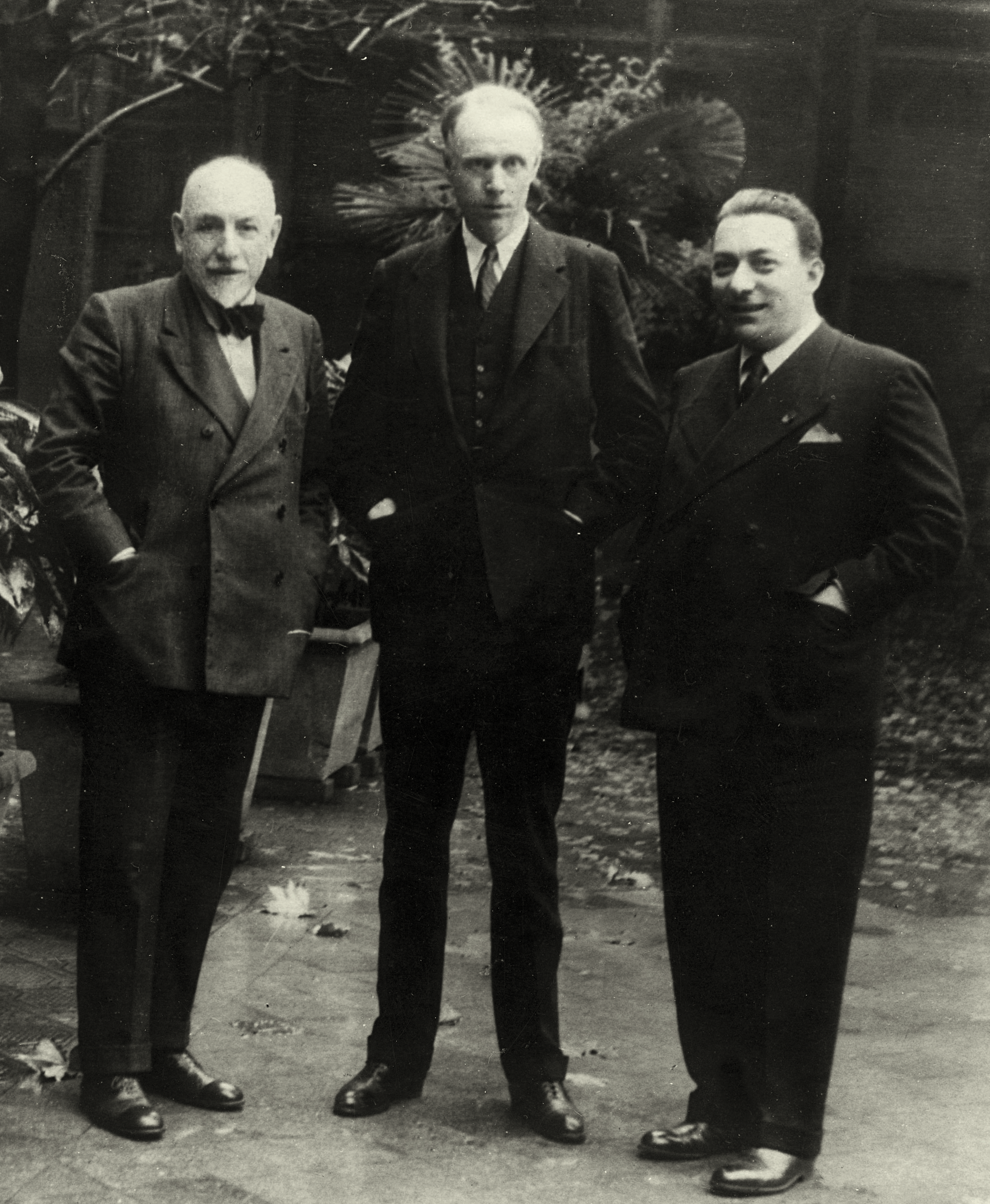 Italian author Luigi Pirandello with Sinclair Lewis and Italian publisher Arnoldo Mondadori.